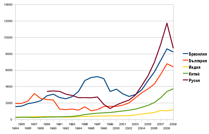 GDP per capita of BRIC countries and Bulgaria (1984-2009). Source: World Bank